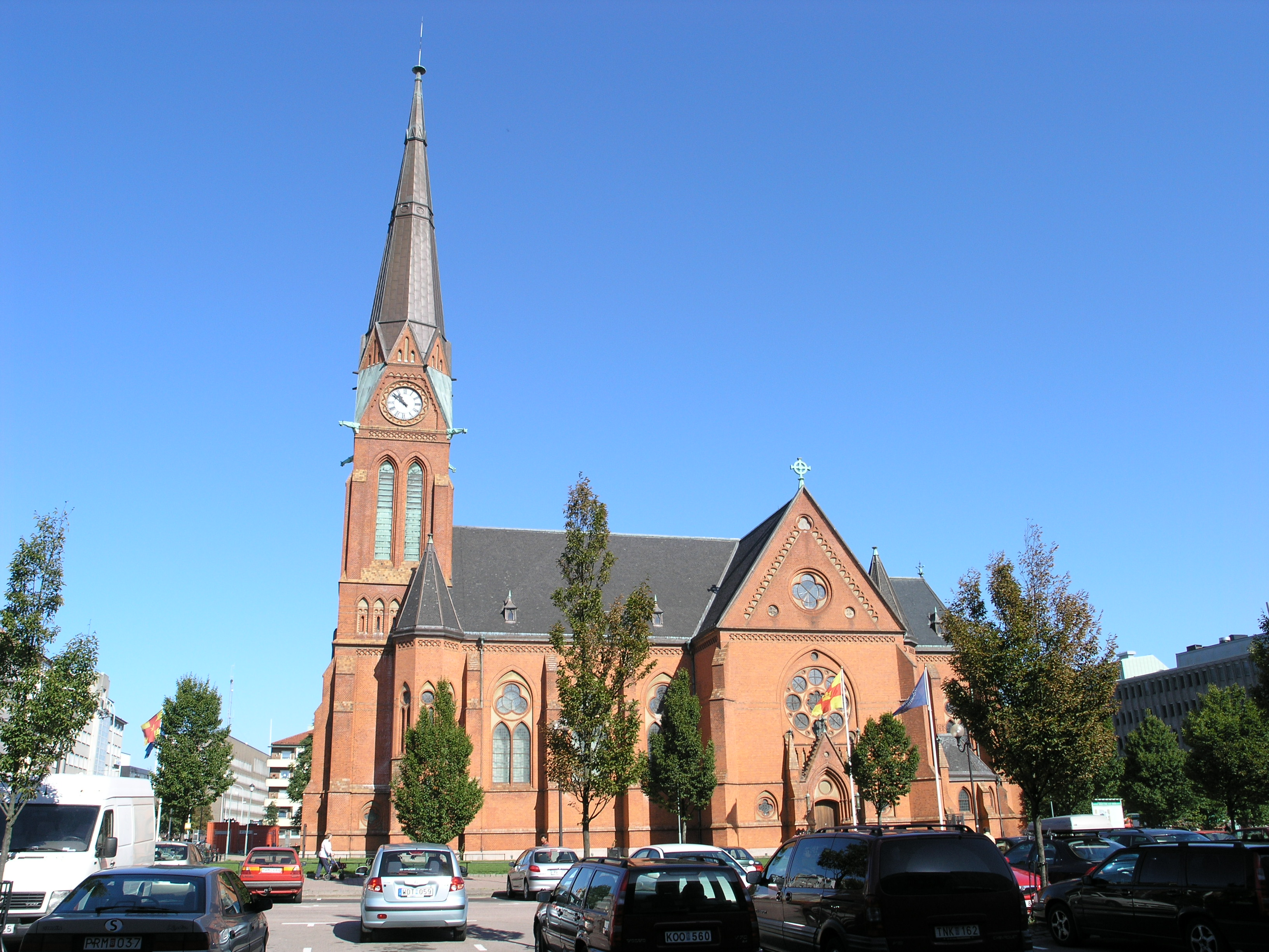 Church in Helsingborg